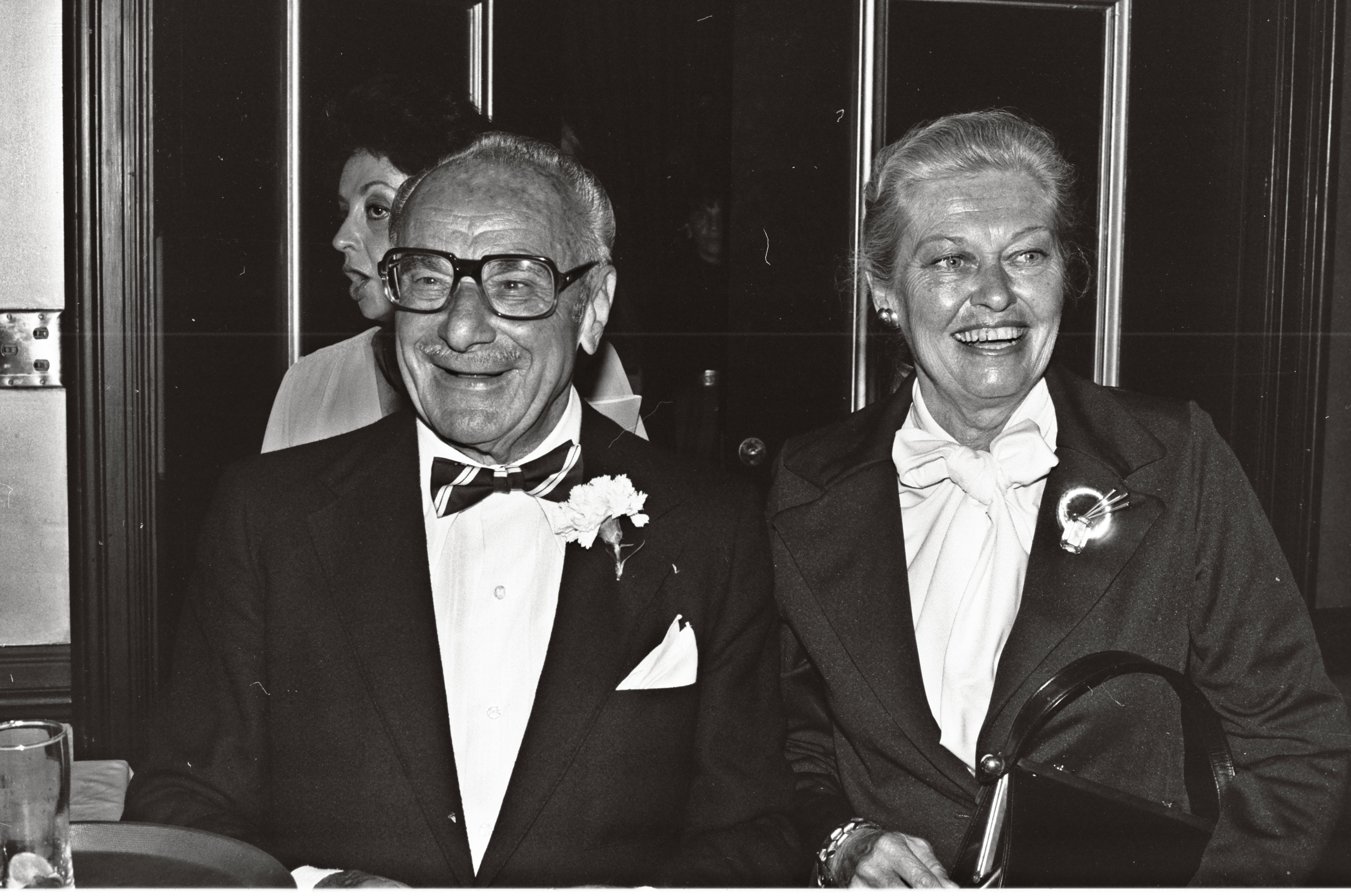 Photo of actor Fritz Feld and his wife, actress Virginia Christine at the National Film Society convention, May 1979.